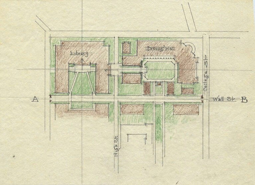 Color sketch of the University Quadrangle by architect Thomas Hastings of the New York City firm of Carrère and Hastings. Carrère and Hastings was responsible for designing Woolsey Hall at Yale, built between 1901 and 1902, as well as University Commons. Image courtesy of the Yale University Manuscripts & Archives Digital Images Database, Yale University, New Haven, Connecticut. Retouched by MarmadukePercy.